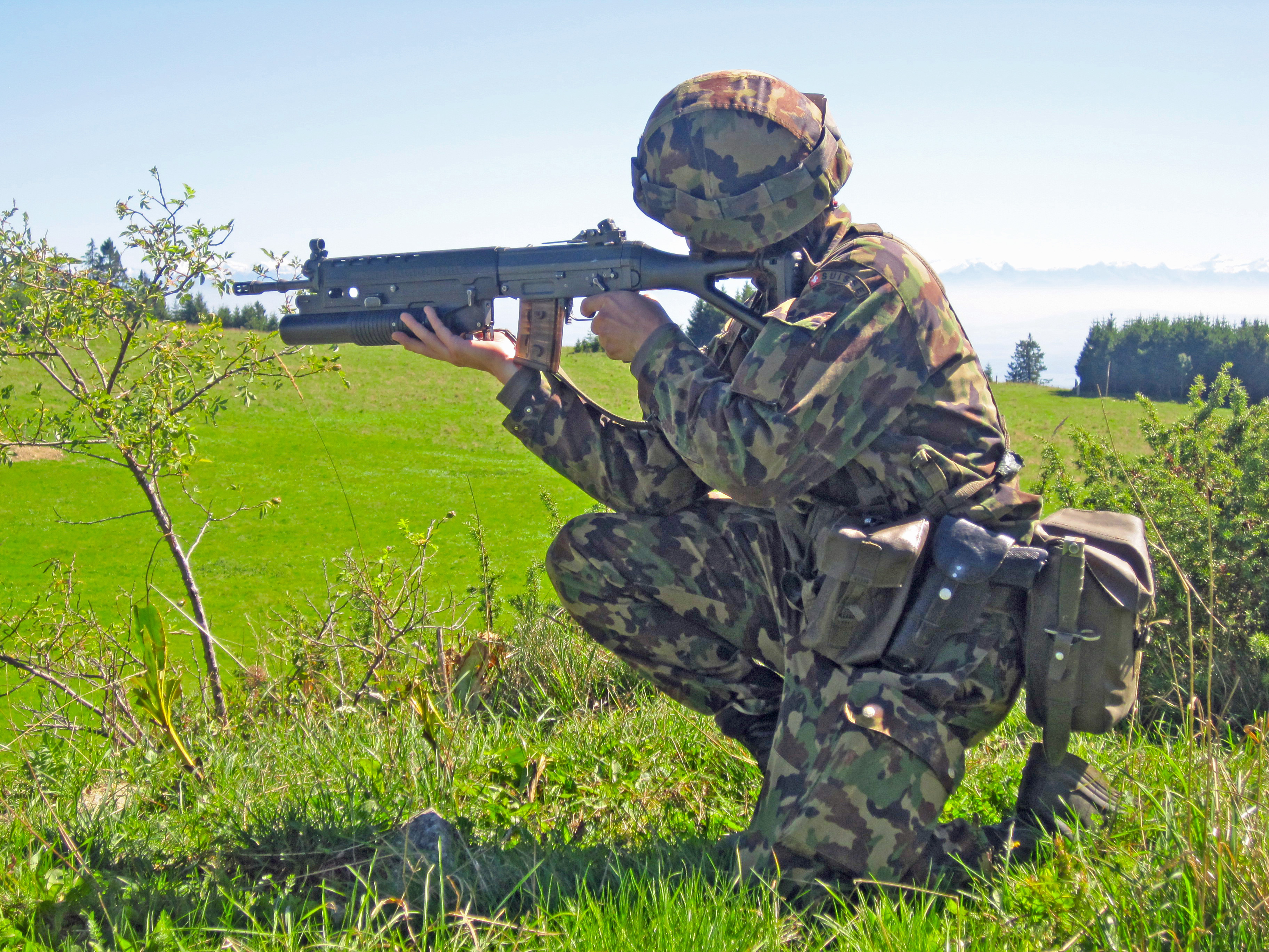 Swiss soldier with a SG 550 assault rifle (Swiss military designation: Sturmgewehr 90) and a 40 mm GL 5040/5140 grenade launcher (Swiss military designation: 40 mm Gewehraufsatz 97), which is mounted under the SG 550 barrel via an eccentric latch and replaces the lower handguard.